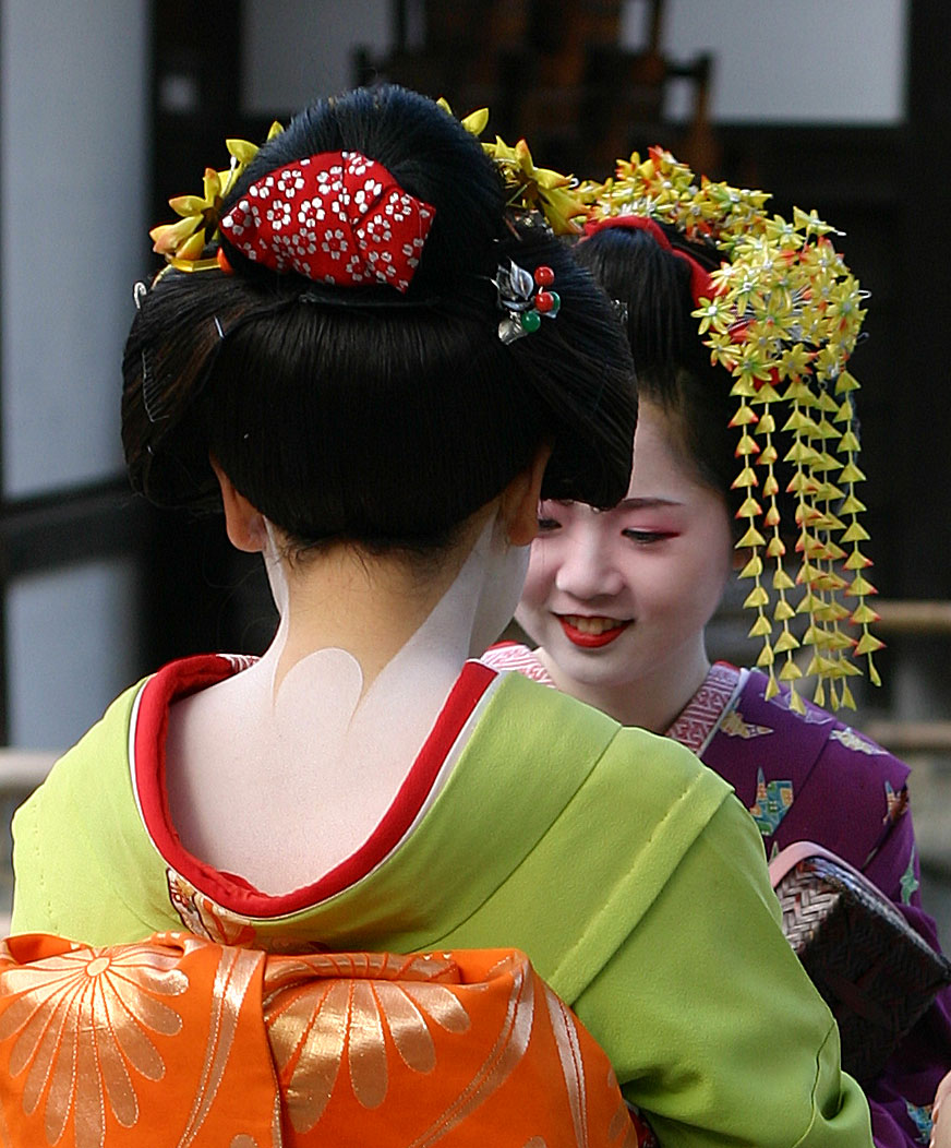 2 Maiko (apprentice Geisha) conversing near the Golden Temple in Kyoto, Japan. Parts of the kimono and the special make-up are clearly visible. Foreground: senior maiko donning the ofuku hairstyle, background: junior maiko marked by the profusion of hair decorations and the inclusion of long trailing tsumami (shidare kanzashi).